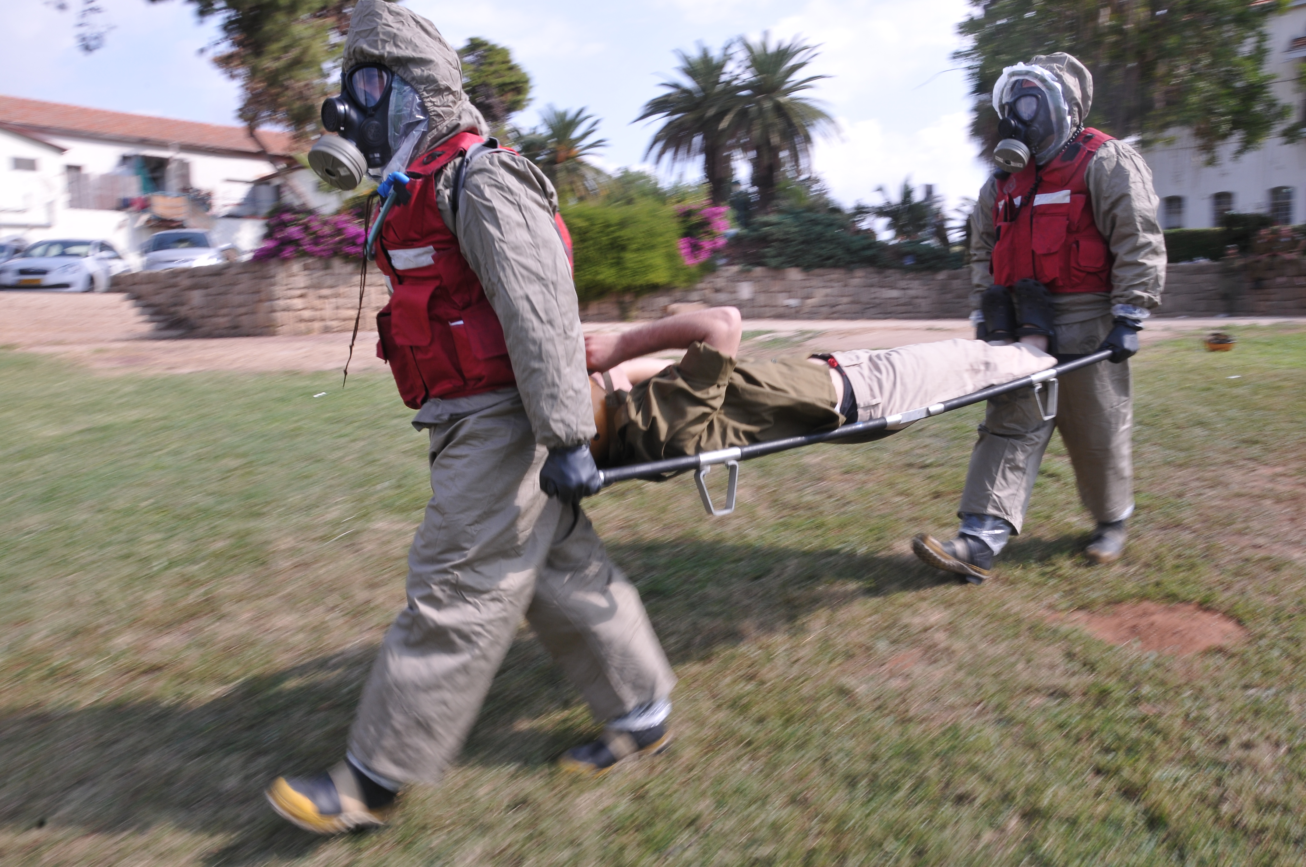 November 3, 2011. Soldiers operate during a Home Front Command drill which simulated a scenario in which missiles were fired on central Israel. The drill is a result of the cooparation between the Home Front Command, the Israeli Health Department, the MDA, the Israel Police and local firefighting forces. The drill was planned by the Home Front Command Medical Branch and the Israeli Ministry of Health, as part of the training program planned for 2011. The Home Front Command as well as the Israeli Ministry of Health will carry on enhancing the capabilities of the local authorities and hospitals in similar scenarios. Photo by Yuval Hakar, Home Front Command Filming Unit.